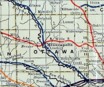 Stouffer's Railroad Map of Kansas, 1915-1918, Ottawa County.